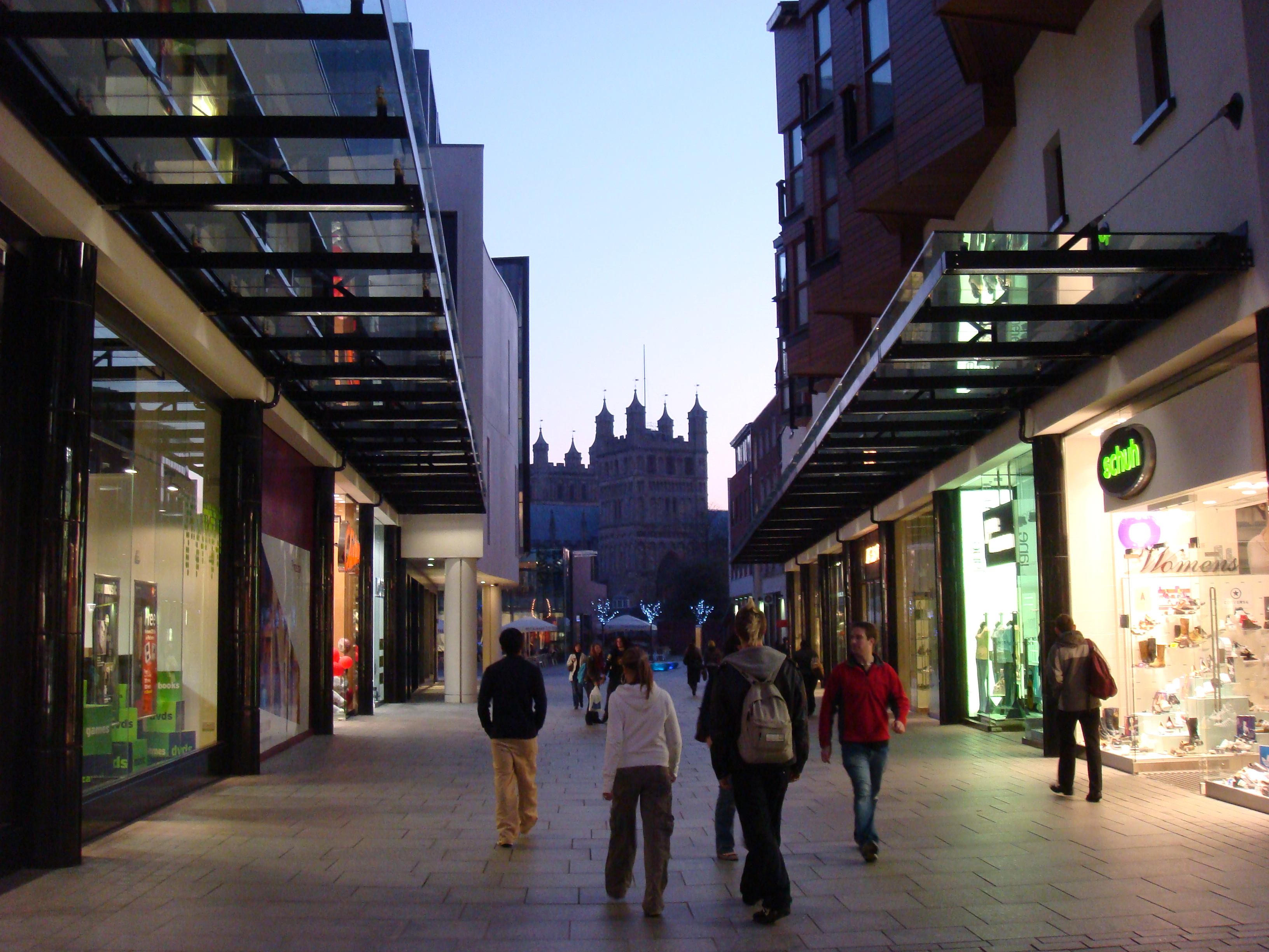 Cathedral from Princesshay